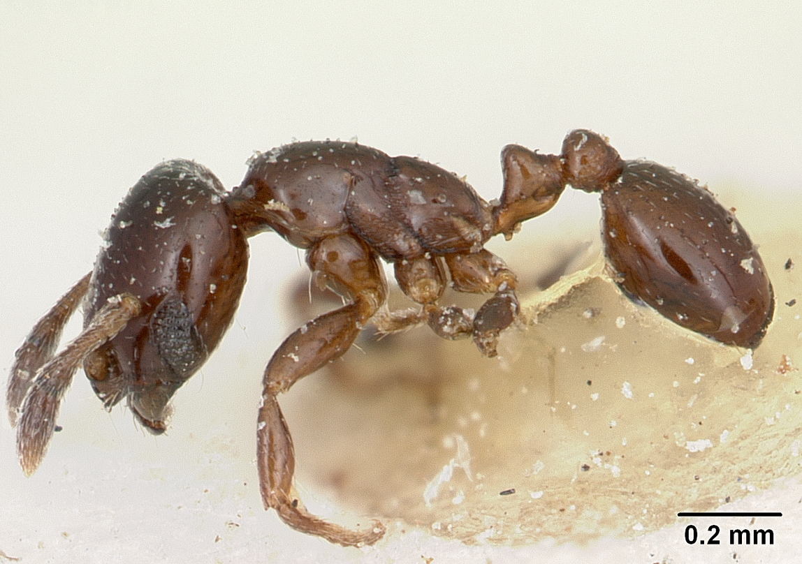 Profile view of ant Solenopsis macrops specimen casent0103214.